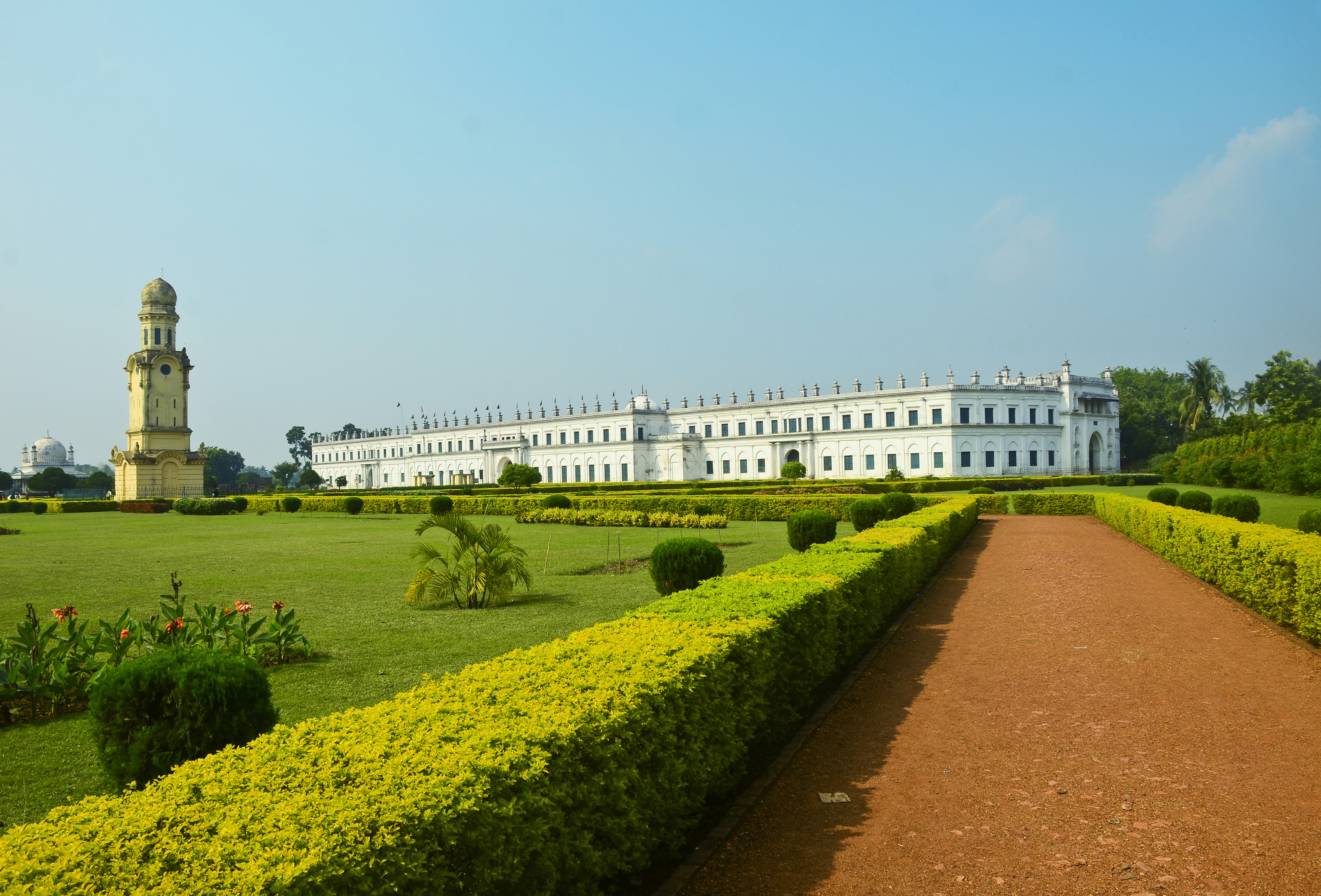 Angular view of Nizamat Imambara, Murshidabad inside Hazarduari Palace Campus